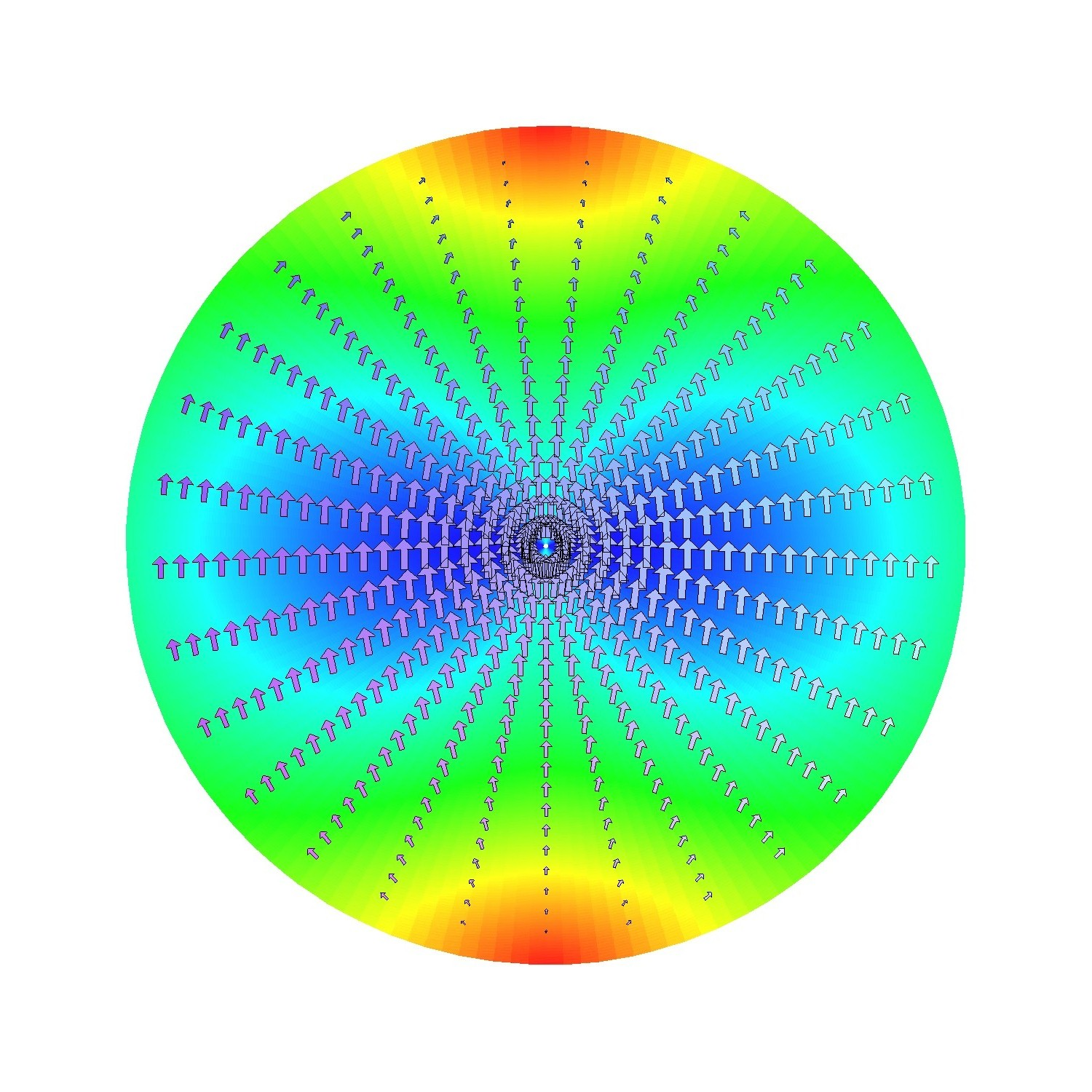 Plot of E and H fields on the TEnl mode defined by n and l.